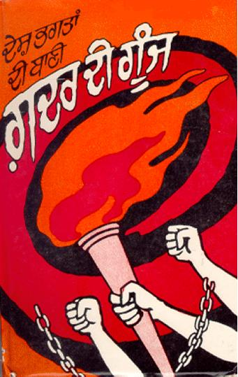 This is the cover of the book compiling Ghadarite poems published in 1913 and now in the possession of the Bancroft library,University of California, Berkeley. According to the article on the subject, it was first published in the United States and then moved and sold abroad, so it's PD-US (Country of 1st publication). 68.39.174.238 (talk) 23:48, 31 July 2008 (UTC)